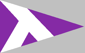 Yacht club flag